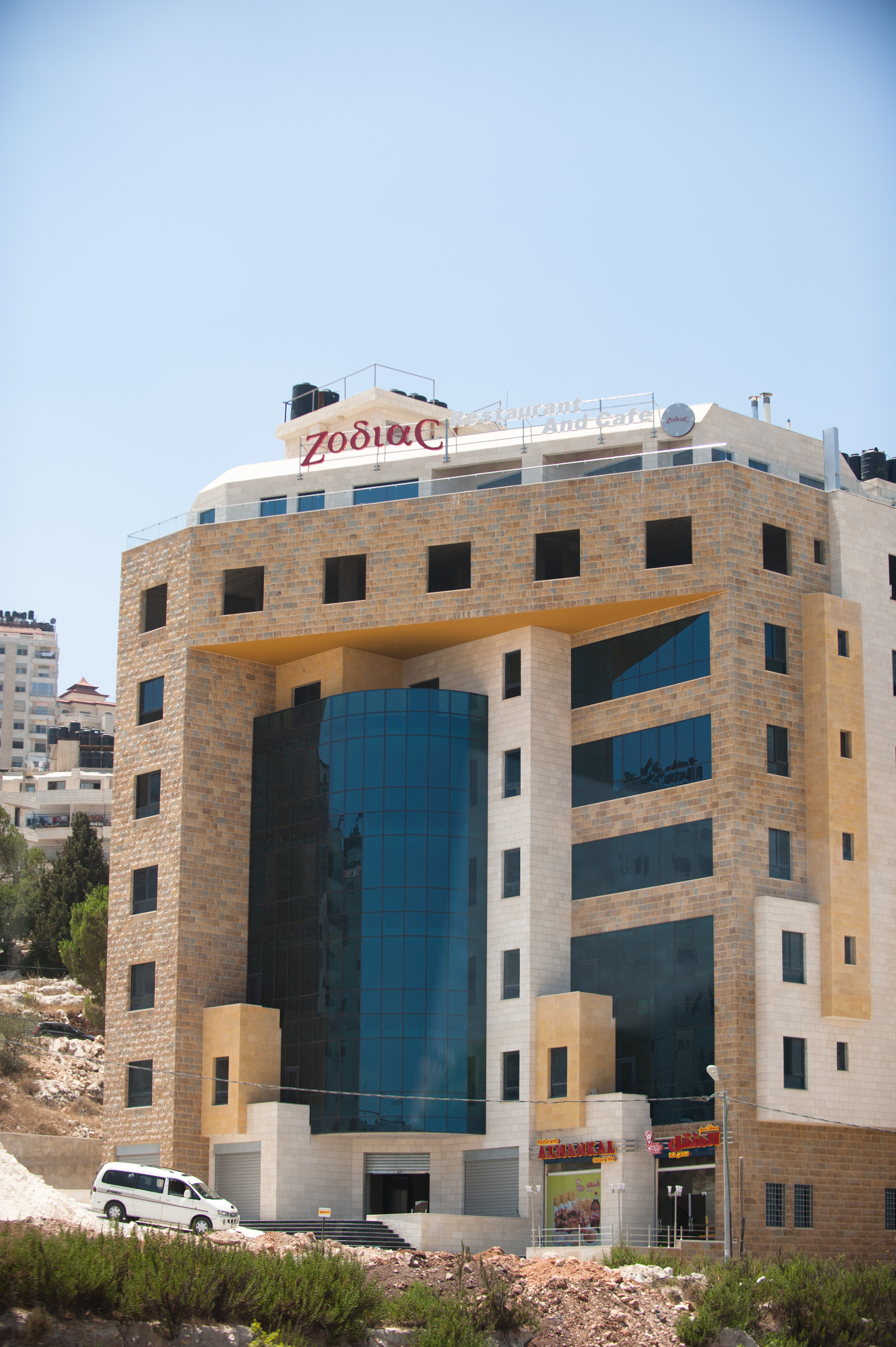 A building in Nablus, West Bank, Palestine